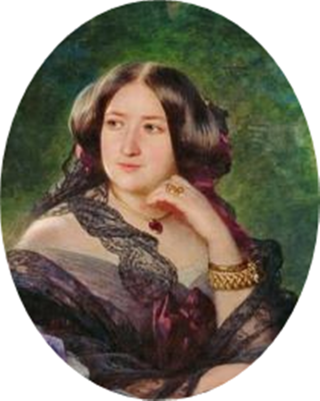 Detail from "The Empress Eugenie Surrounded by her Ladies in Waiting", by Franz Xaver Winterhalter.